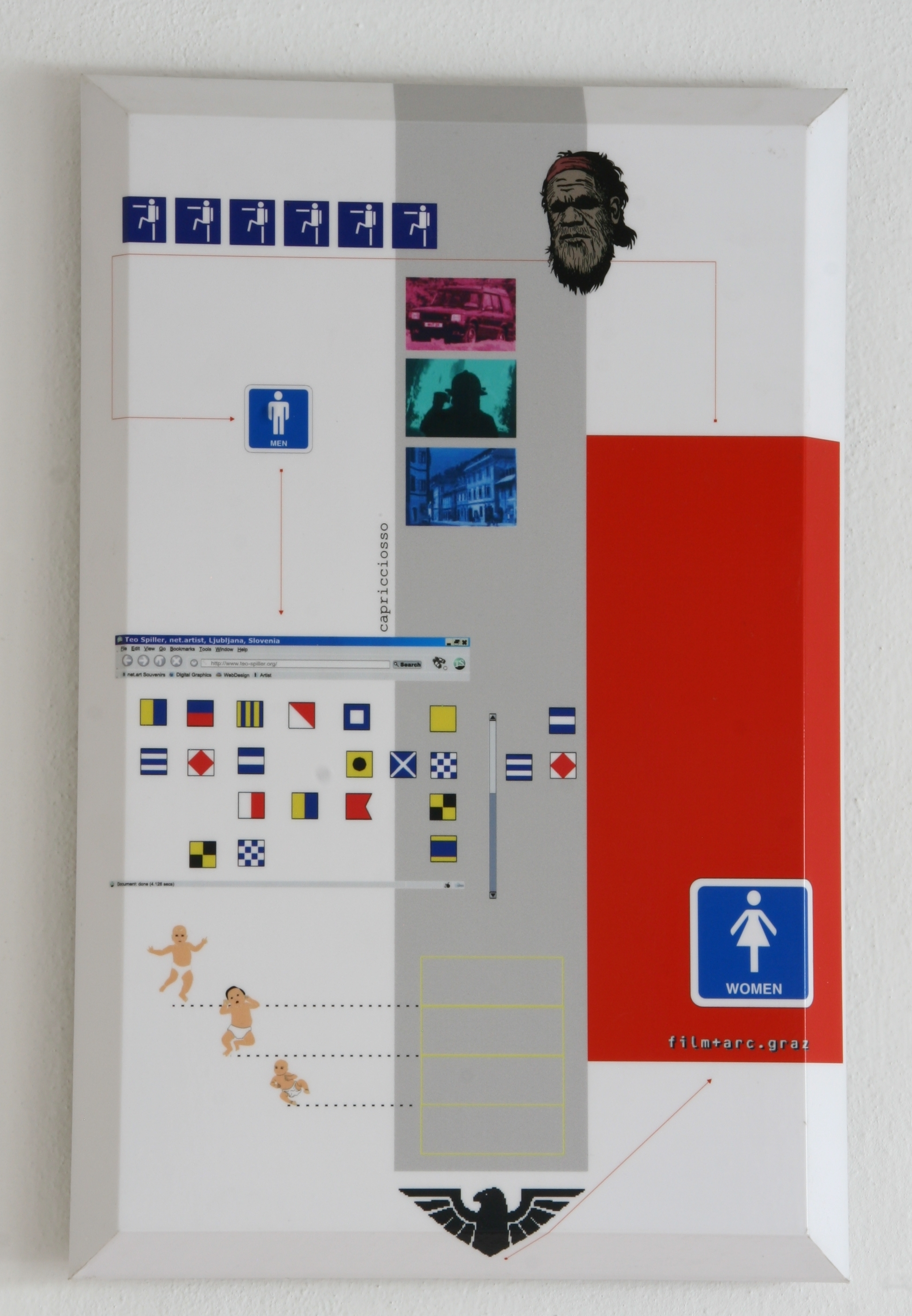 Teo Spiller Tangible net.art object Capriccess for Netscape(2003), physical remix of his net.art project Capriccess for Netscape